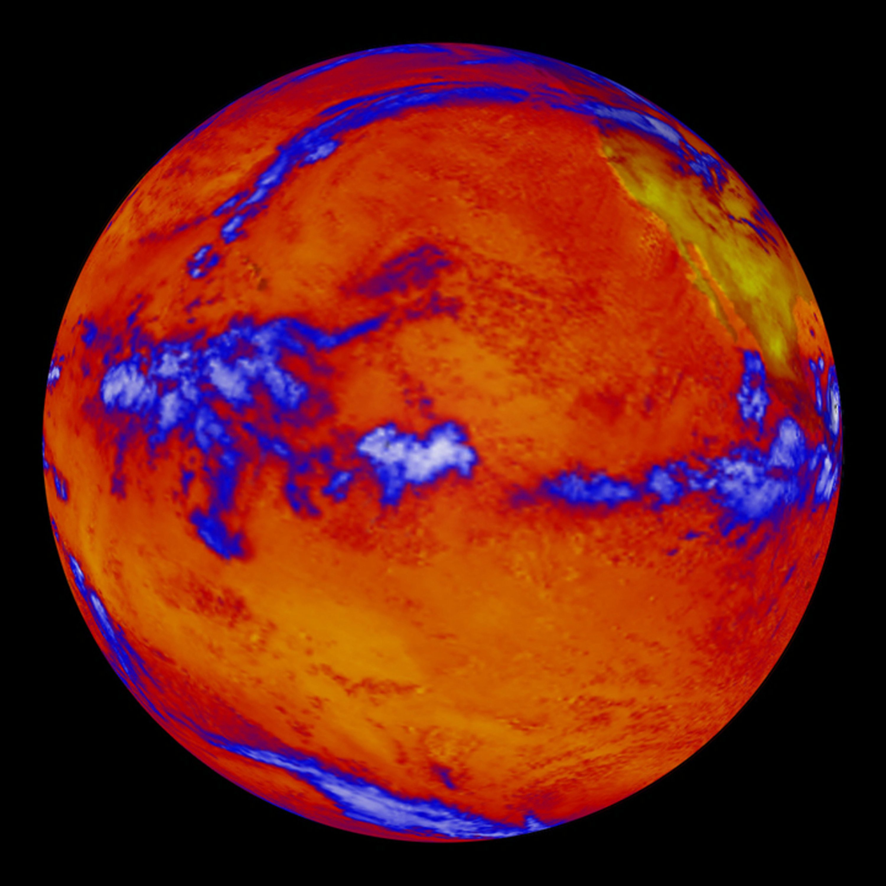 Absorption of solar energy heats up our planet's surface and atmosphere making life for us possible. But the energy carnot stay bound up in the Earth's environment forever. If it did, the Earth would be as hot as the sun. Instead, as the surface and atmosphere warm, they emit thermal long wave radiation, some of which escapes into space and allows the Earth to cool. This false color image of the Earth was produced by the Clouds and the Earth's Radiant Energy System (CERES) instrument flying aboard NASA's Terra spacecraft. The image shows where more or less heat, in the form of long-wave radiation, is emanating from the top of the Earth's atmosphere. As one can see in the image, the thermal radiation leaving the oceans is fairly uniform. The blue swaths represent thick clouds, the tops of which are so high they are among the coldest places on Earth. In the American Southwest, which can be seen in the upper right hand corner of the globe, there is often little cloud cover to block outgoing radiation and relatively little water to absorb solar energy making the amount of outgoing radiation in this area exceeding that of the oceans. Recently, NASA researchers discovered that incoming solar radiation and outgoing thermal radiation increased in the tropics from the 1980s to the 1990s. They believe the unexpected change has to do with apparent change in circulation patterns around the globe, which effectively reduce the amount of water vapor and cloud cover in the upper reaches of the atmosphere. Without the clouds, more sunlight was allowed to enter the tropical zones and more thermal energy was allowed to leave. The findings may have big implications for climate change and future global warming.